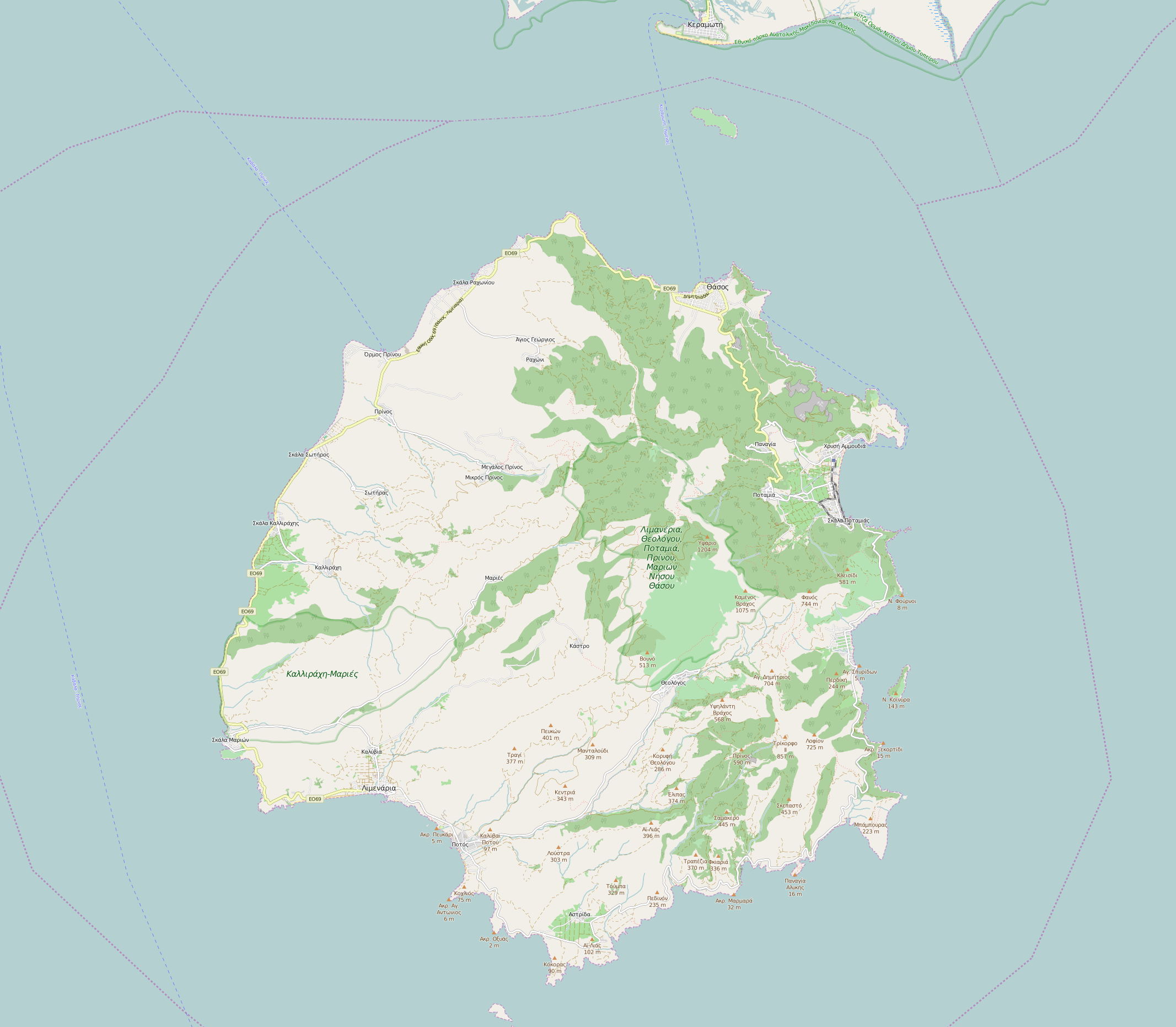 OpenStreetMap - Map of Thasos